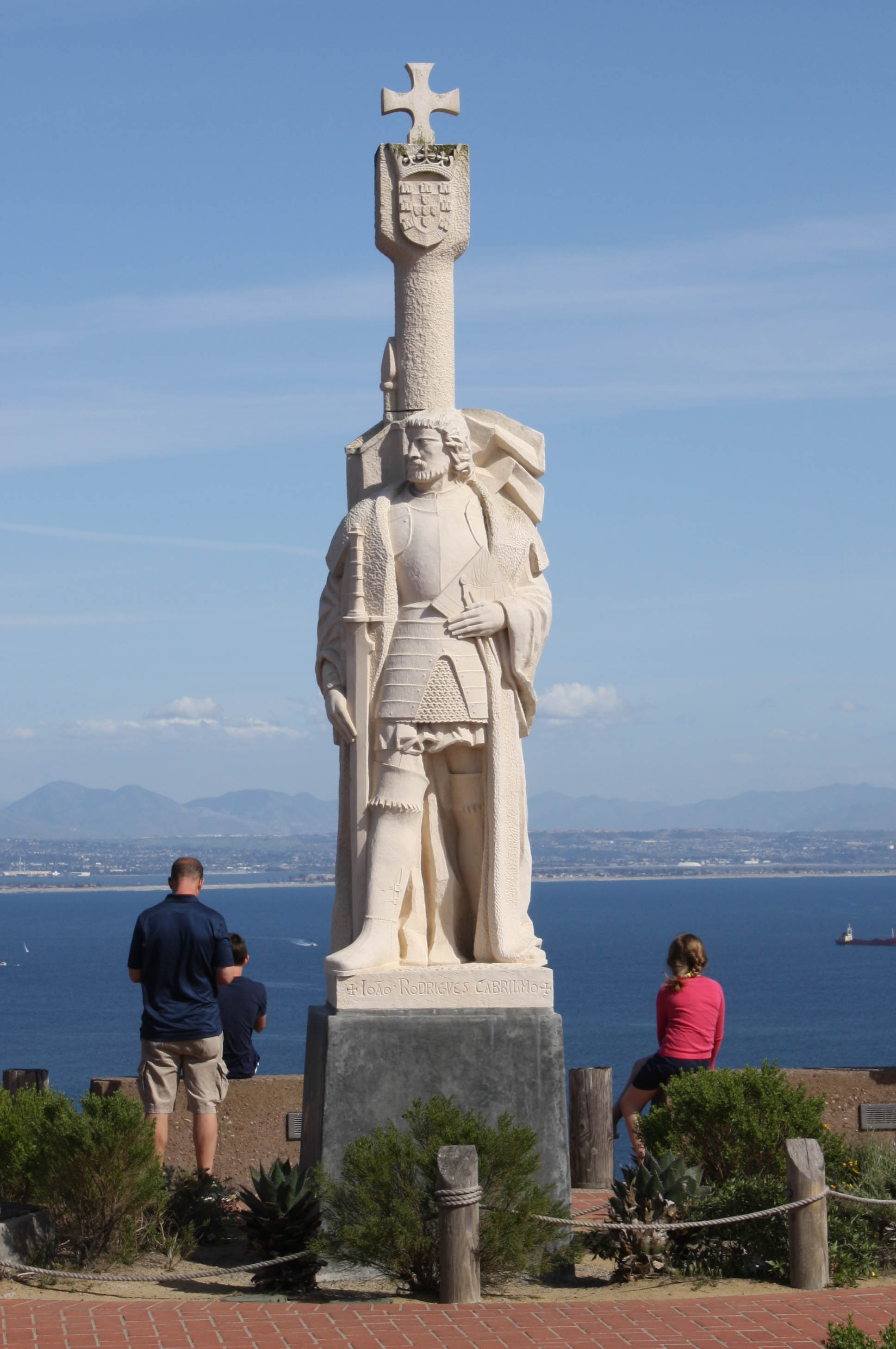 Statue of Juan Rodríguez Cabrillo at Cabrillo National Monument, Point Loma, San Diego, California